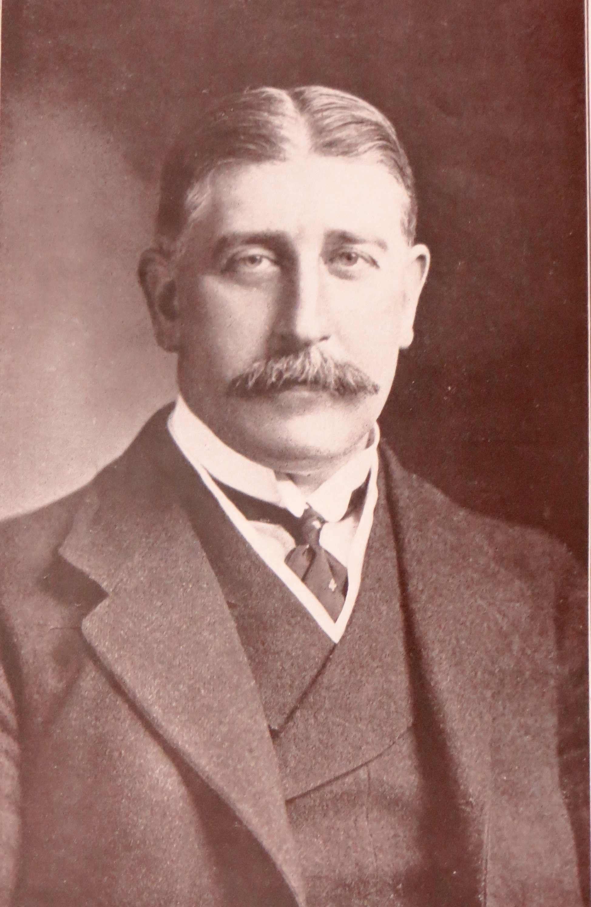 General Manager London and South Western Railway